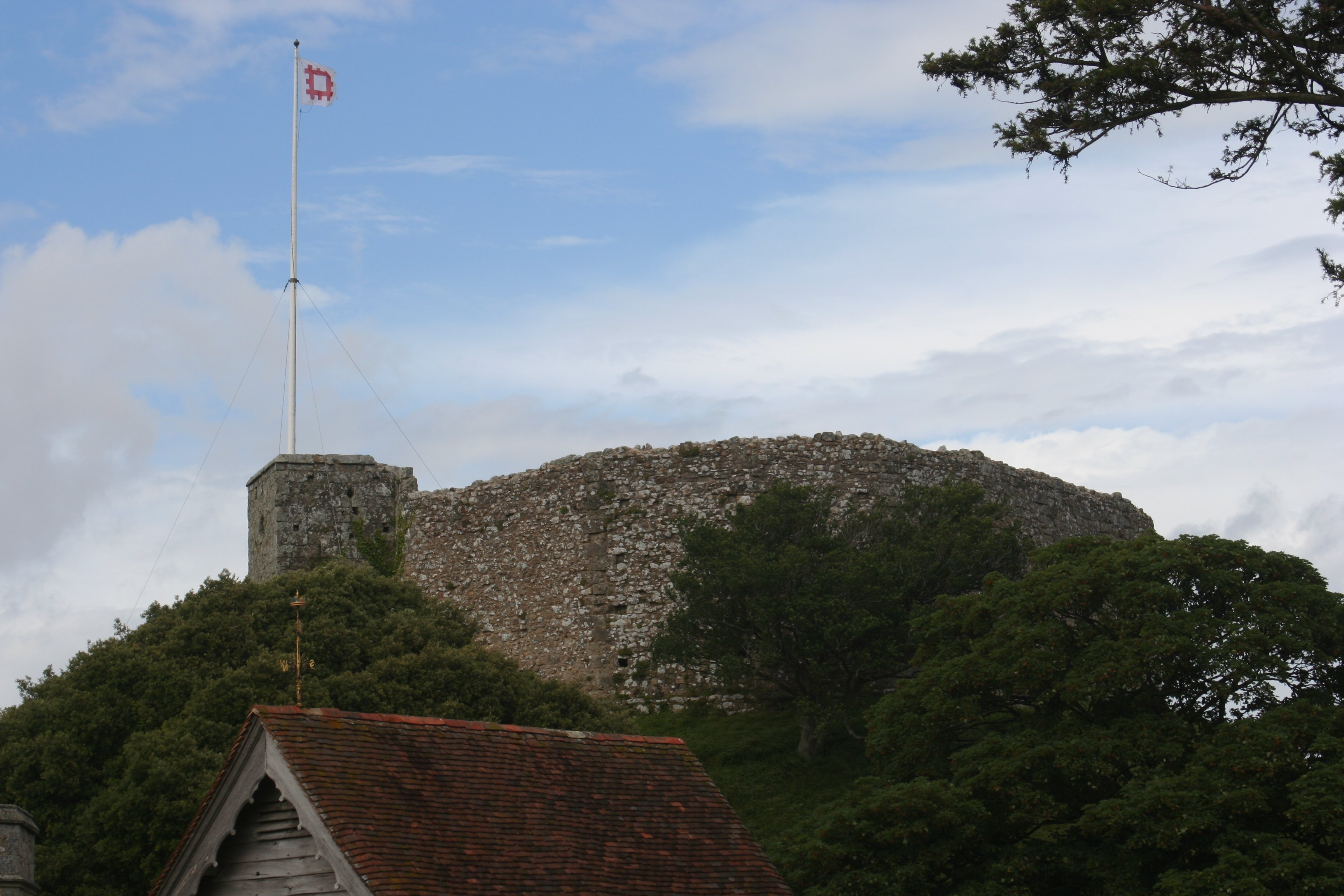 Keep of Carisbrooke Castle